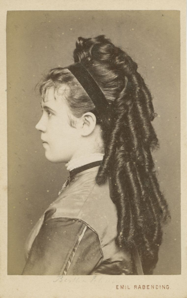 Artist: Emil Rabending Date/place: Unknown date/Vienna Subject: Betha Ehm Bertha Ehnn Medium: Photographic posetive Notes: Soprano. Born in Pest 1845 Original belongs to the Archives at [#//bergenbibliotek.no/digitale-samlinger” Bergen Public Library]